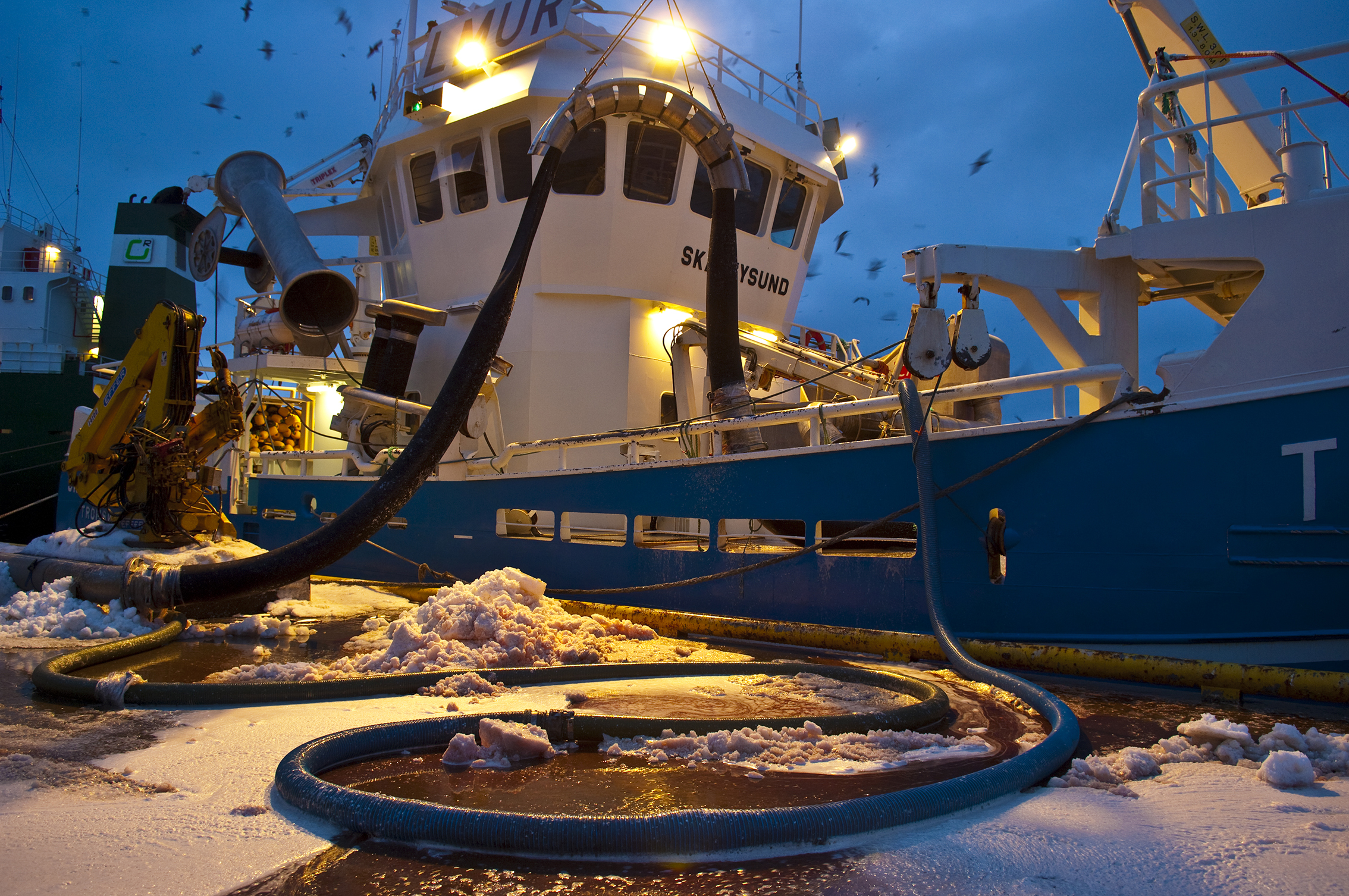 Bildet kan fritt lastes ned. Vennligst krediter fotograf. --- This image may be downloaded for commercial and non-commercial use. Please credit the photographer. Foto / Photo Credit: Gaute Bruvik.